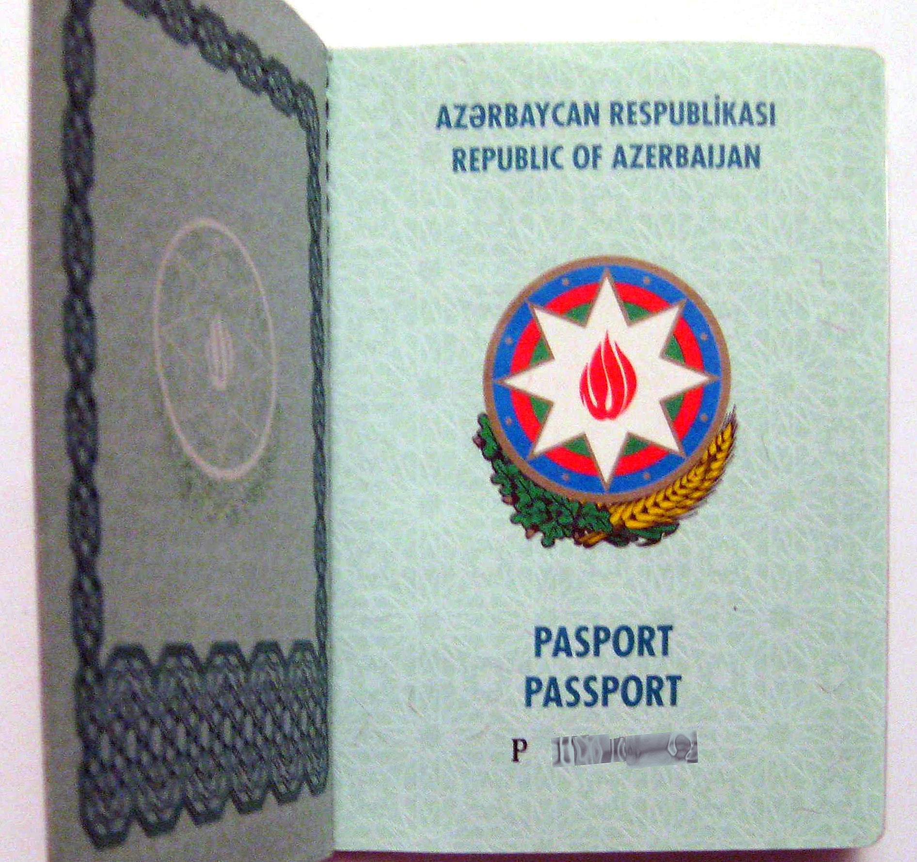 This is the image of Azerbaijani passport